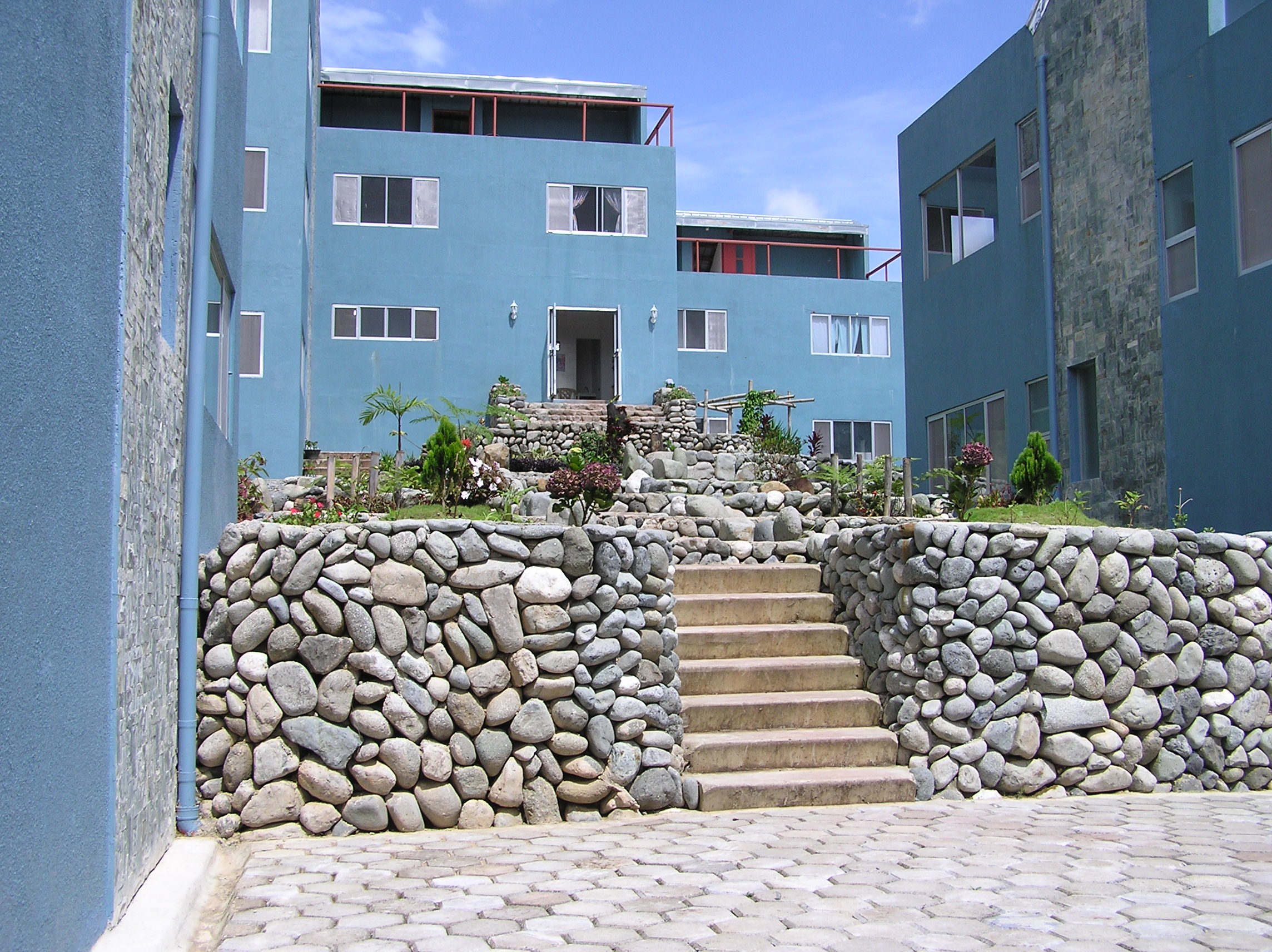 Philippine College of Ministry, Baguio City, Philippines. Standing next to the Chapel looking toward the Dormitory Buildings.